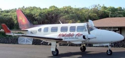 Mokulele Flight Service operated the Navajo Chieftan until late 2006 when the airline took delivery of 3 Cessna Grand Caravan 208Bs.